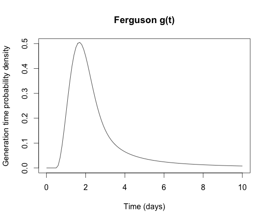 Generation time for influenza (time from infection to infection). Ferguson (2005) Nature 437(7056):209.